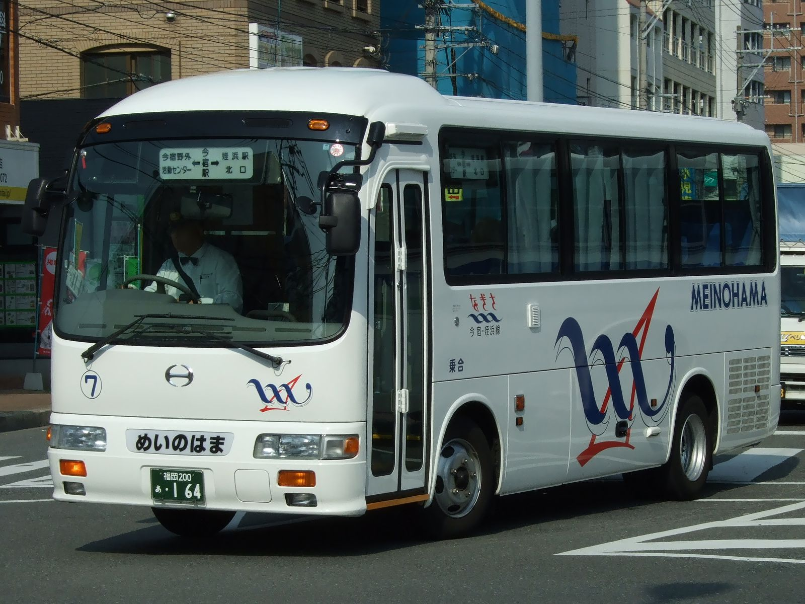 Company:Meinohama Taxi Use:route bus Car license:福岡200 あ・164 Chassis manufacturer:Hino Motors Coachbuilder:Hino Body Location:in Fukuoka City, Fukuoka, Japan.